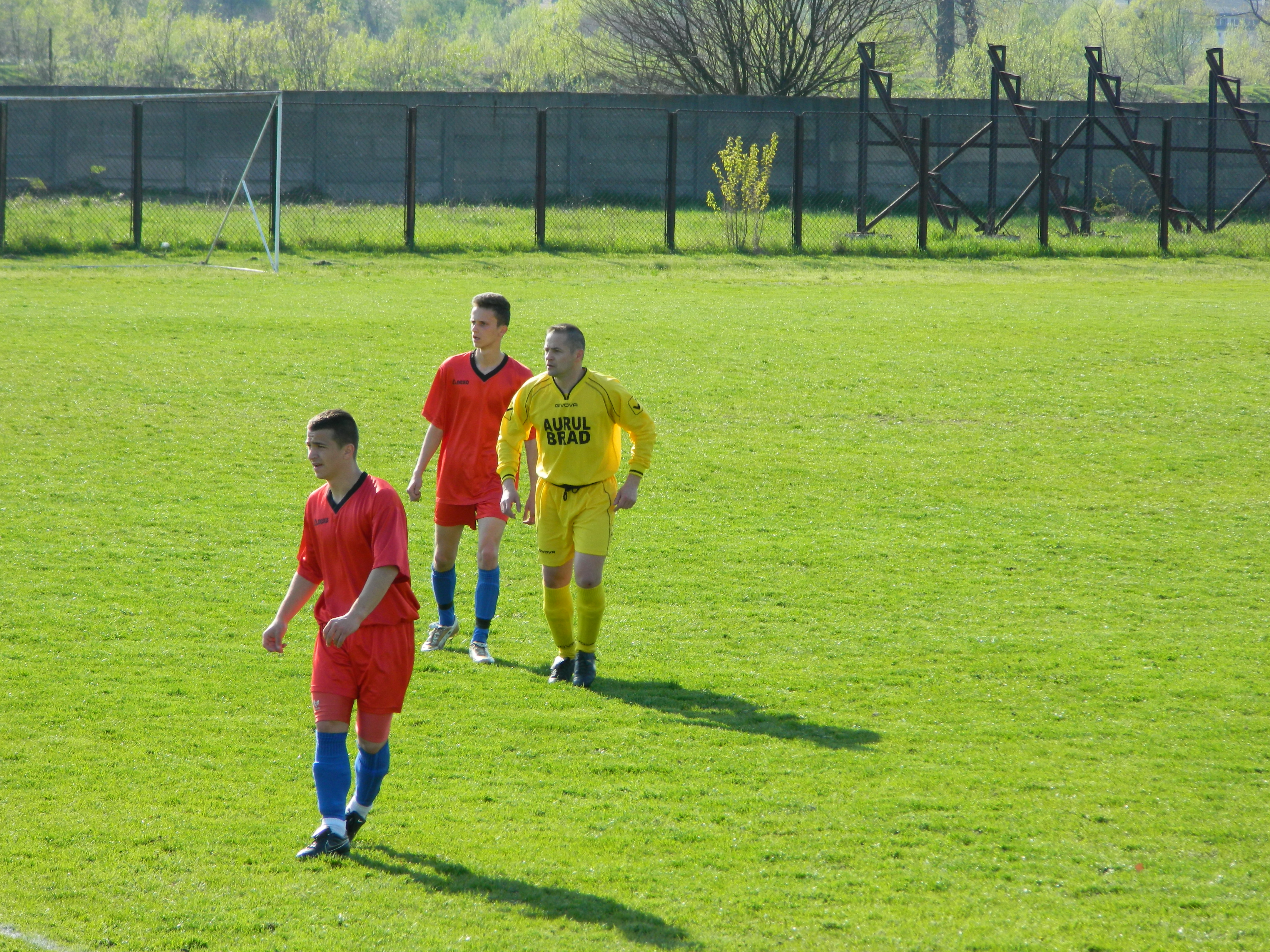 Codrut Mihaila